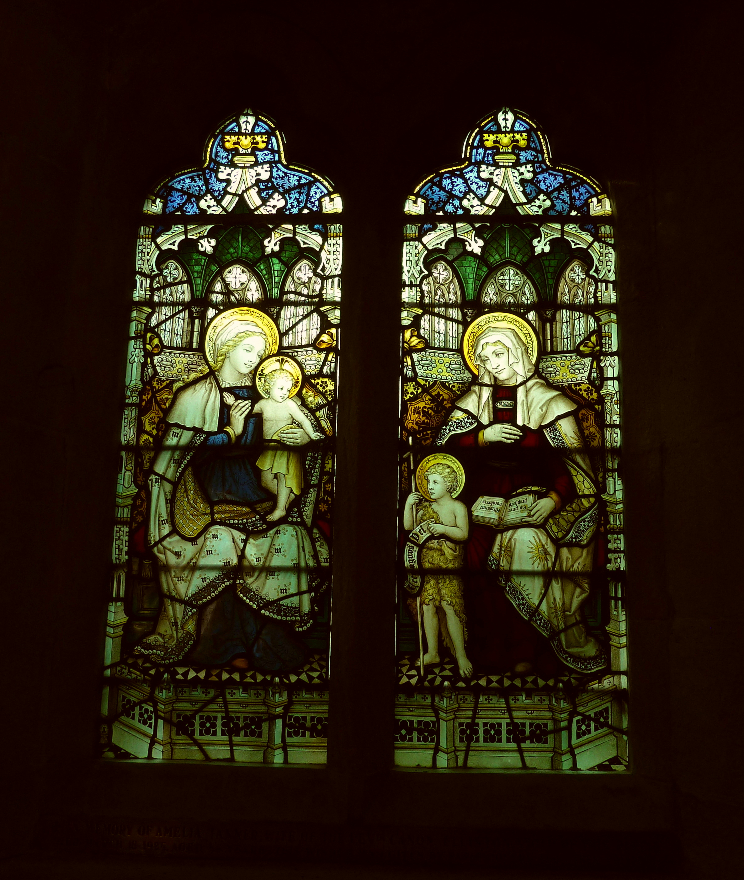 Stained glass window in the parish church of St Thomas the Apostle, Killinghall, North Yorkshire, England. Church completed in 1880, by architect William Swinden Barber. The right-hand light shows Elizabeth, wife of Zechariah, and her son John the Baptist. Her book shows a line from the Song of Zechariah. It translates as "You, my son, shall be called the prophet of the most high." (Luke 1:68-79). The child John is looking at baby Jesus in the other window light, and he holds the words "agnus dei" or Lamb of God. The left-hand light shows the Madonna and Child, and everybody is looking at John. A brass strip below the window says: "In memory of Amelia Tanner, the wife of the Reverend Canon Elliston, vicar of this parish. Died March 18 1925, aged 54 years. This window was given by parishioners and other friends."